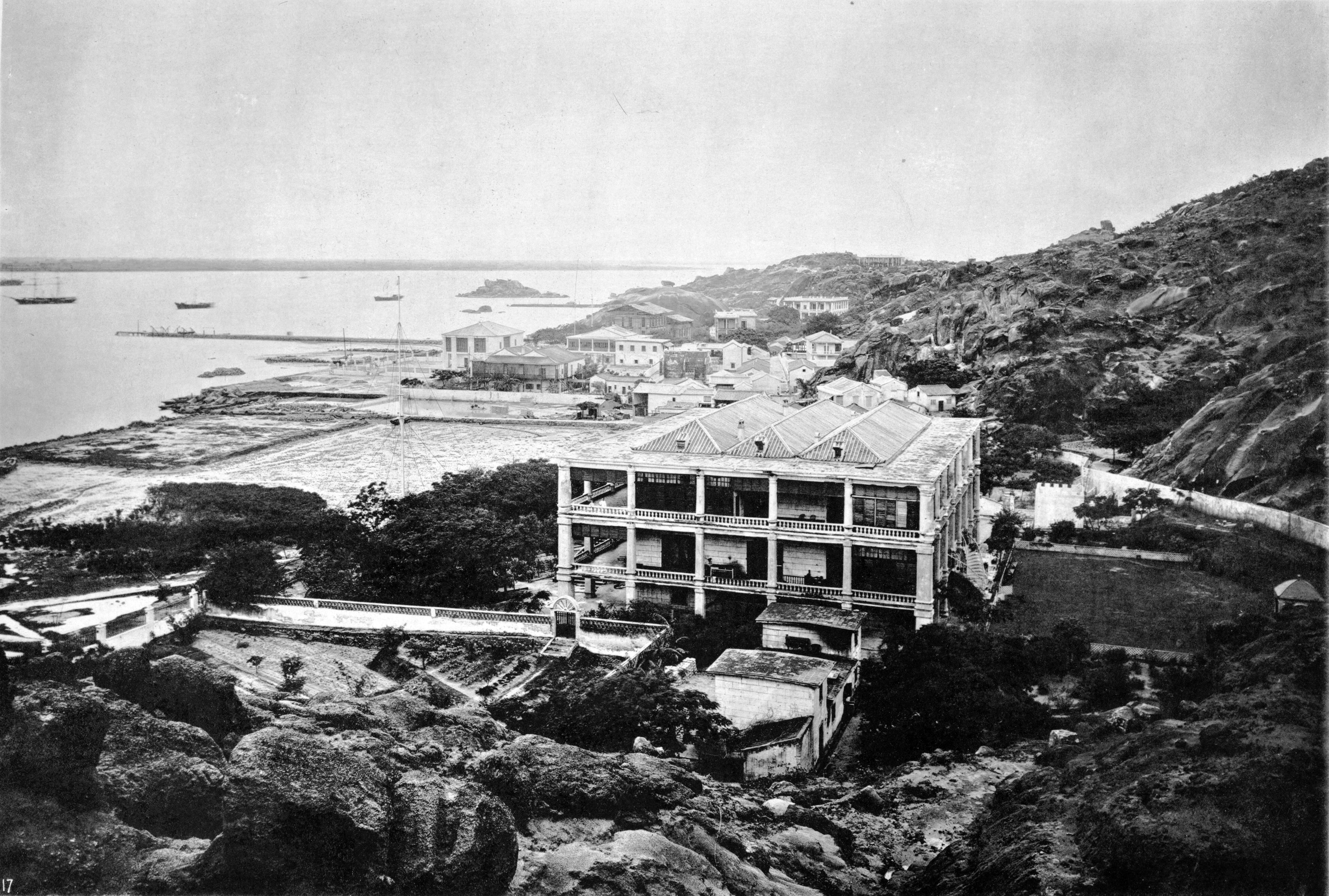 Photograph by John Thomson. See detail on the Wikisource link below.